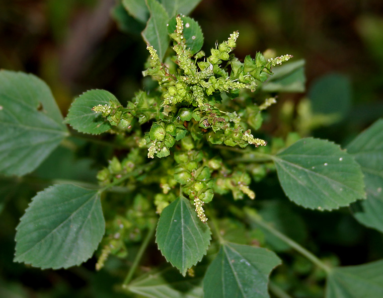 Acalypha indica L. (syn. A. bailloniana Müll.Arg.; A. canescens Wall.; A. caroliniana Blanco; A. chinensis Benth.; A. ciliata Wall.; A. cupamenii Dragend.; A. decidua Forssk.; A. fimbriata Baill.; A. indica var. bailloniana (Müll.Arg.) Hutch.; A. indica var. minima (H.Keng) S.F.Huang & T.C.Huang; A. minima H.Keng; A. somalensis Pax; A. somalium Müll.Arg.; A. spicata Forssk.; Cupamenis indica (L.) Raf.; Ricinocarpus baillonianus (Müll.Arg.) Kuntze; R. deciduus (Forssk.) Kuntze; R. indicus (L.) Kuntze)- Rudra, Indian acalypha, Kuppu, Khokali- in Hyderabad, India.